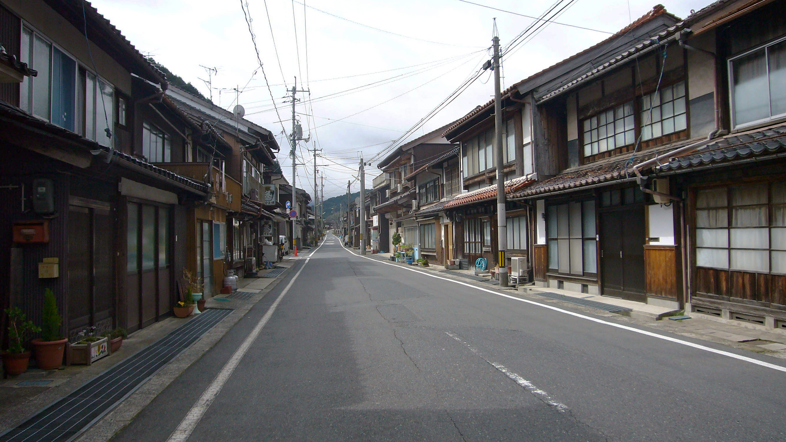 Bizen street in Chidu-cho, Tottori prefecture, Japan